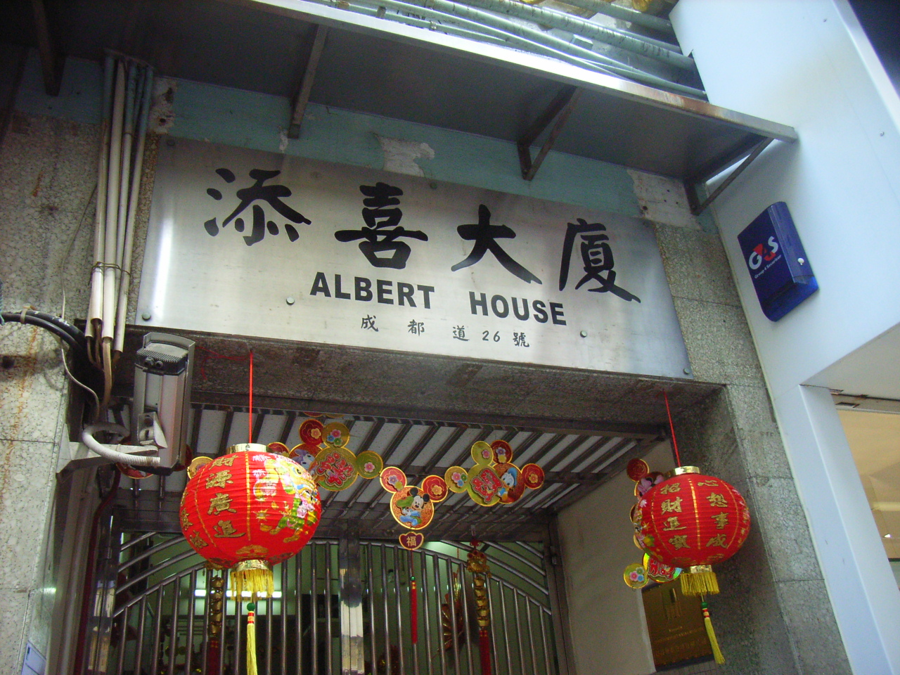 香港島南區 香港仔 成都道 添喜大廈 G4S保安 警鐘系統